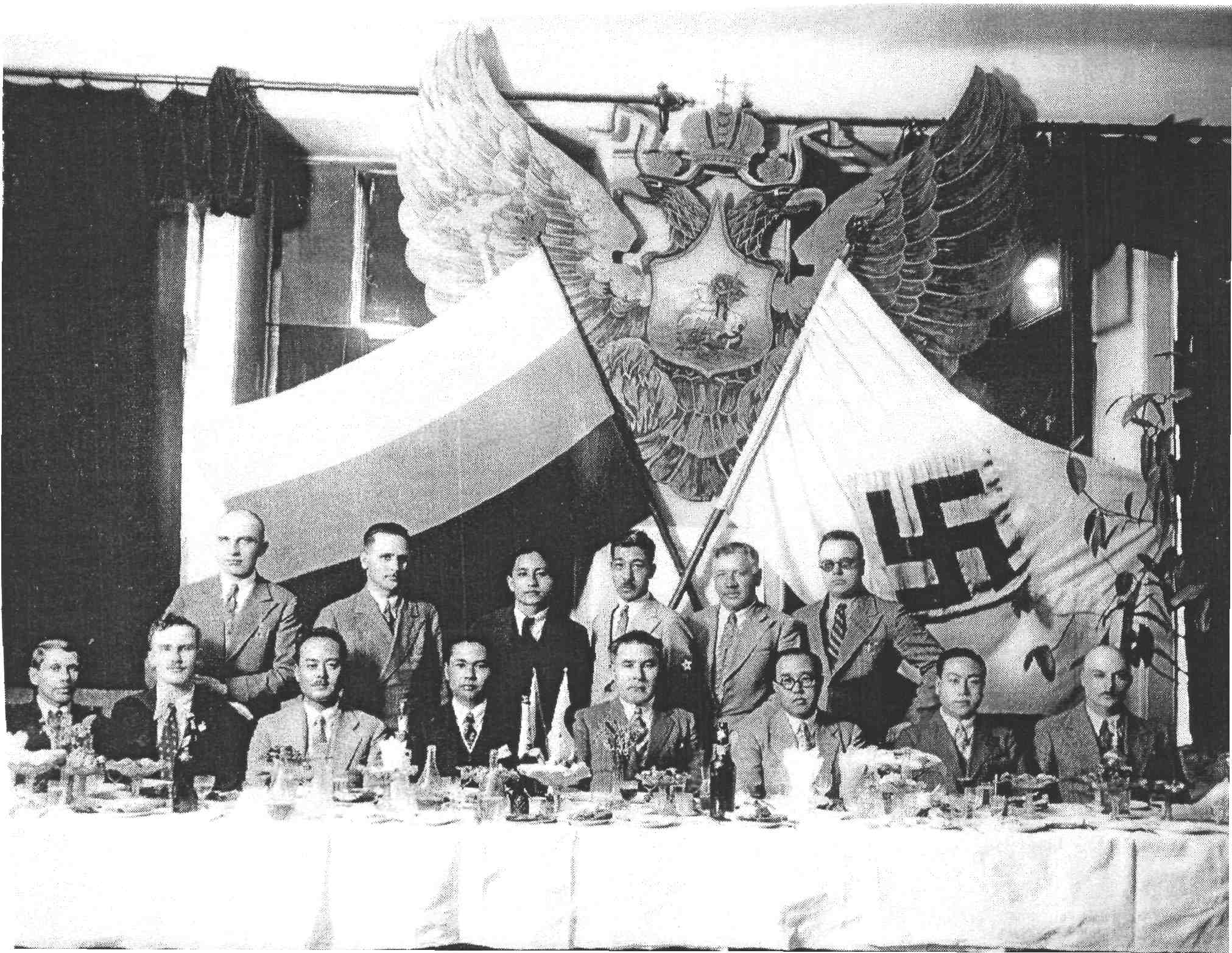 Banquet BREM